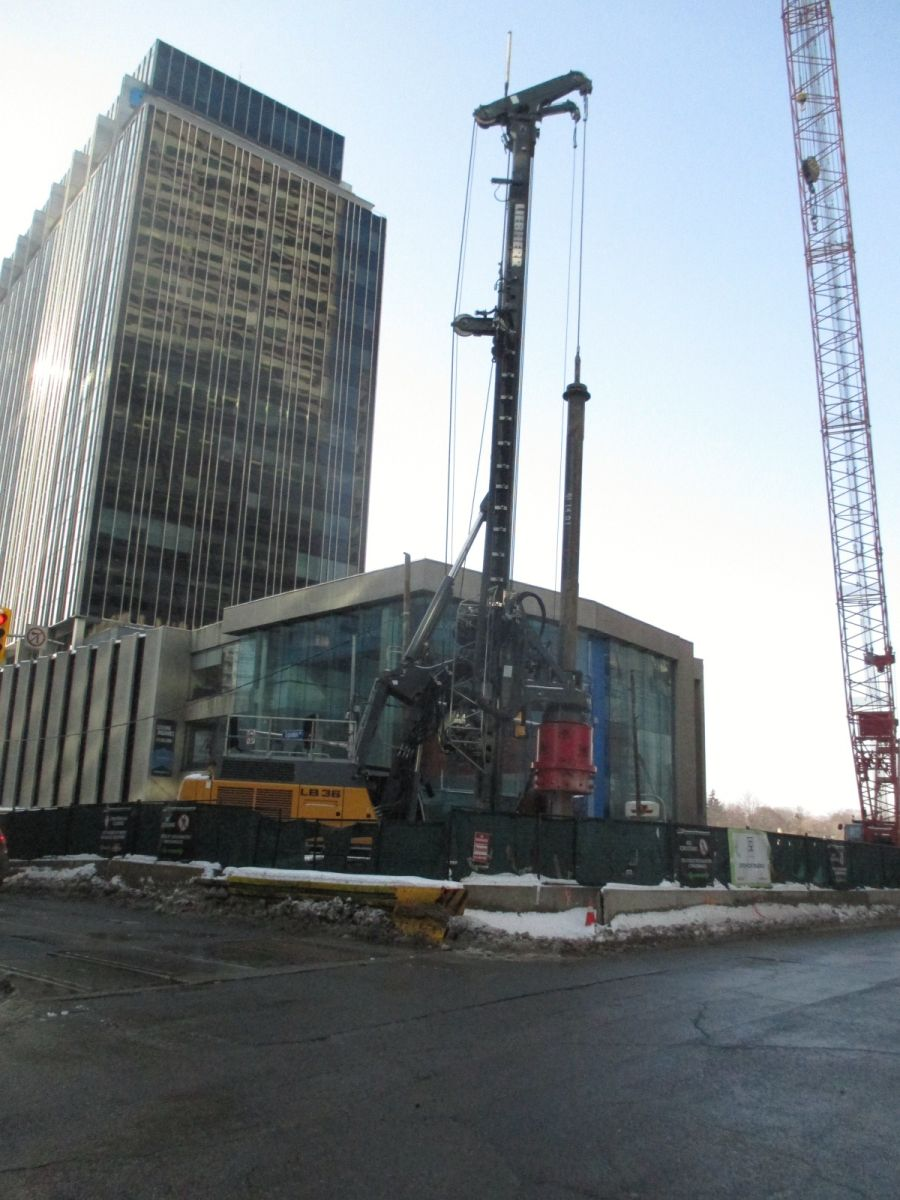 Near the main entrance of Eglinton station, a machine is boring holes to contruct the station sidewalls for the new Line 5 Eglinton.